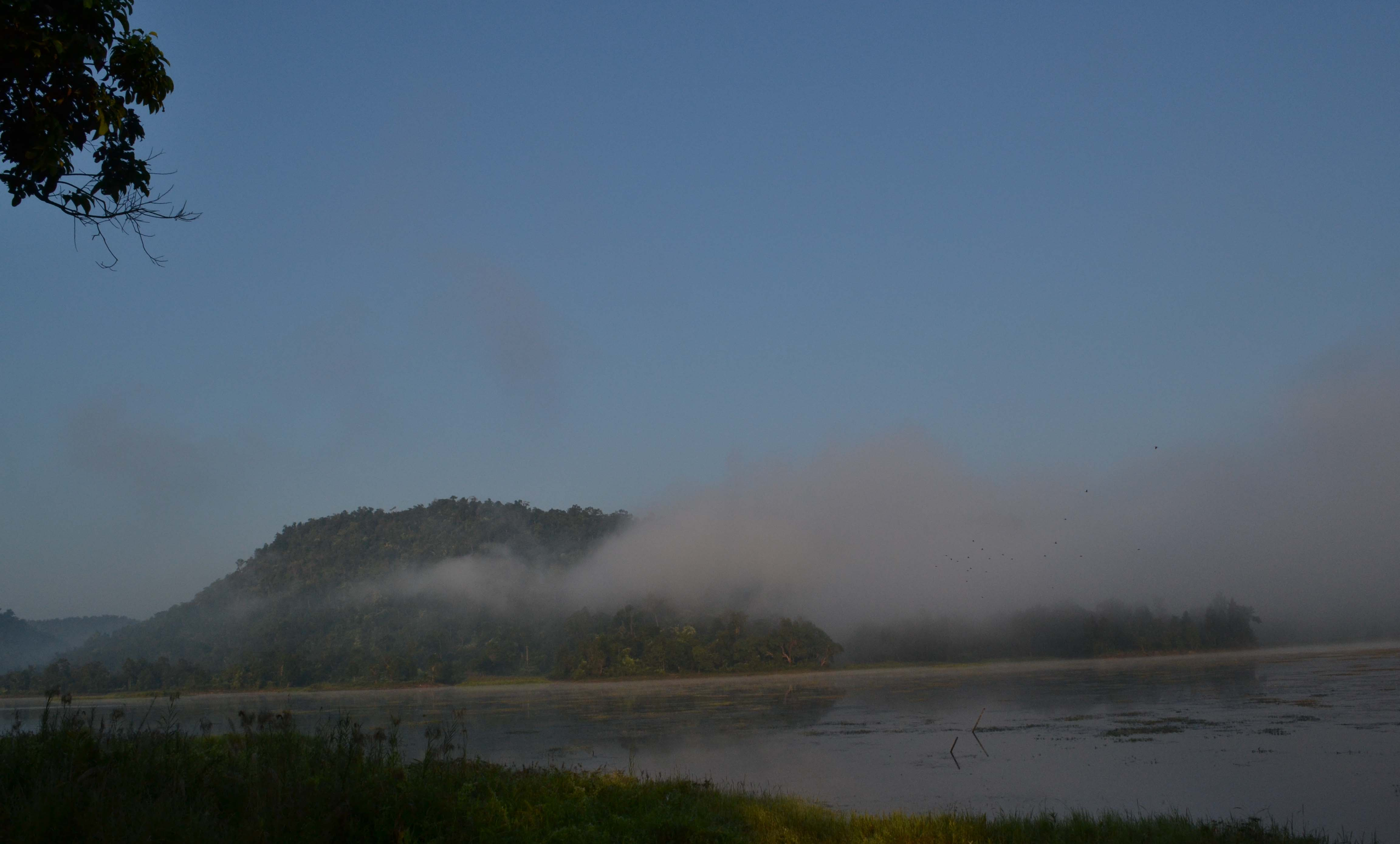 A picture in the morning time of Chandubi Bill of Kamrup District of Assam.